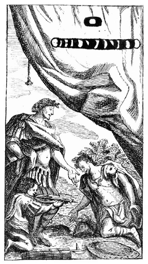 Leonardo Leo - La clemenza di Tito - image from the libretto - Venice 1735